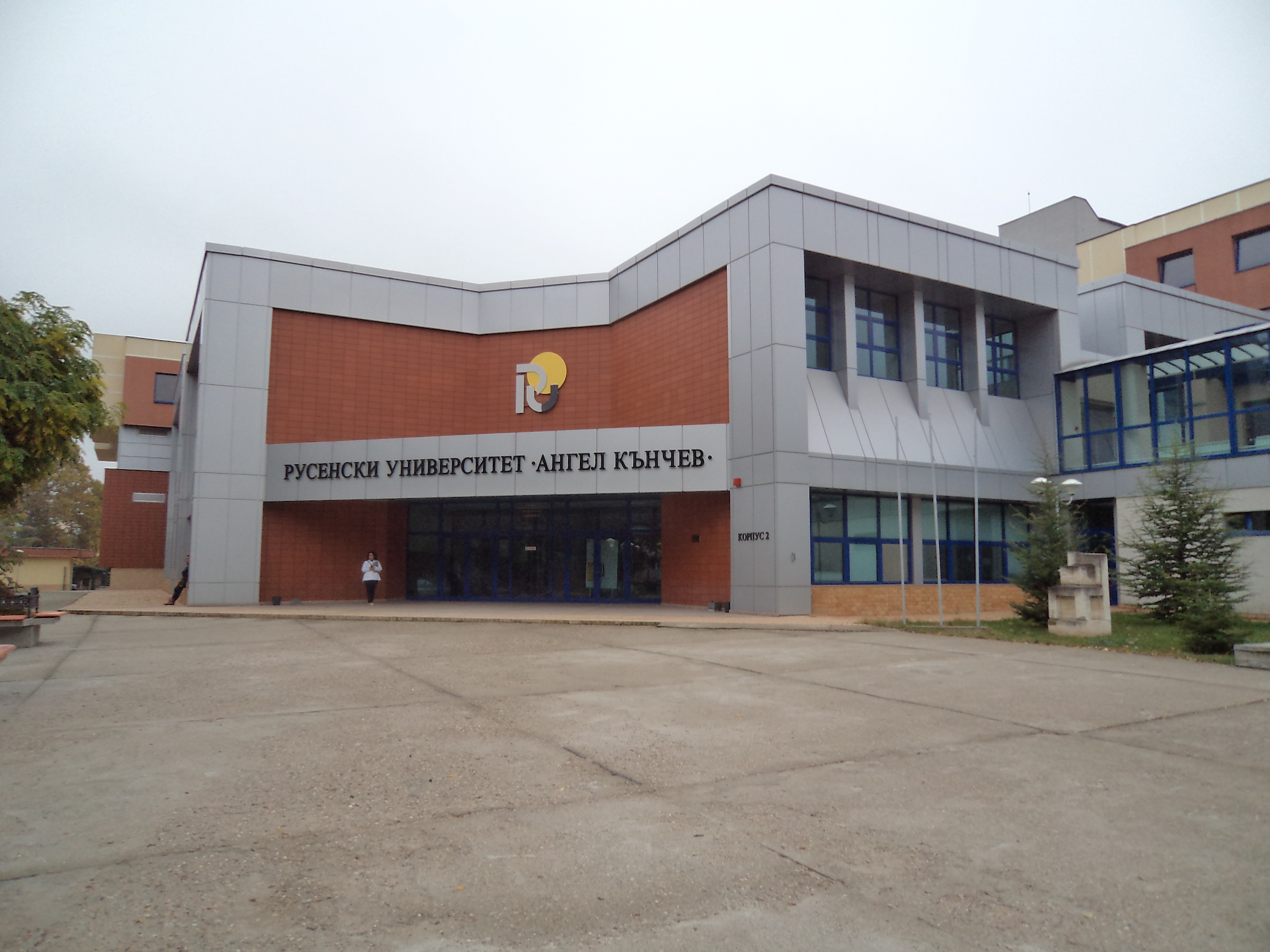 Rousse University, Corpus 2